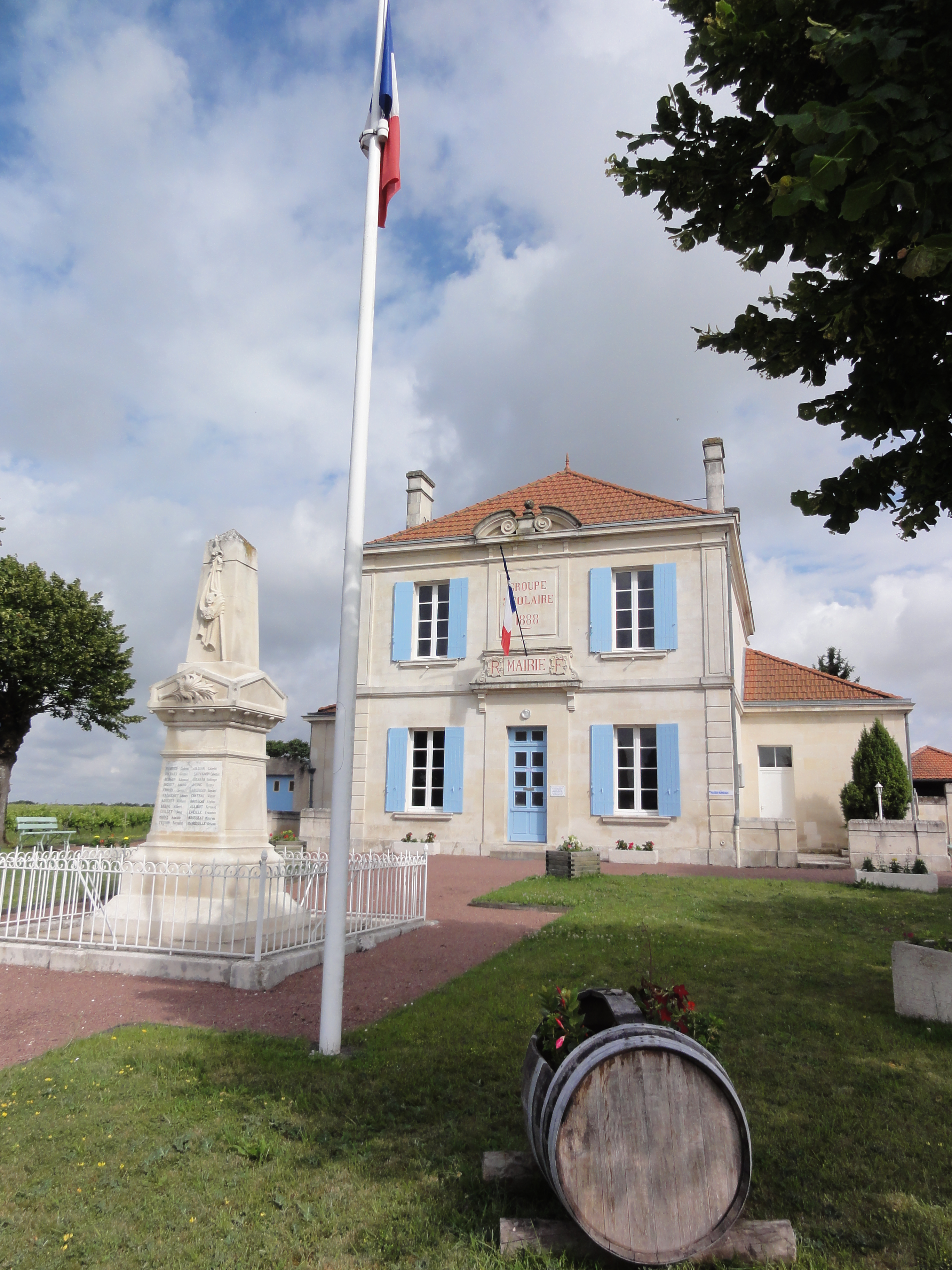 Saint-Léger (Charente-Maritime) mairie, école, monument aux morts